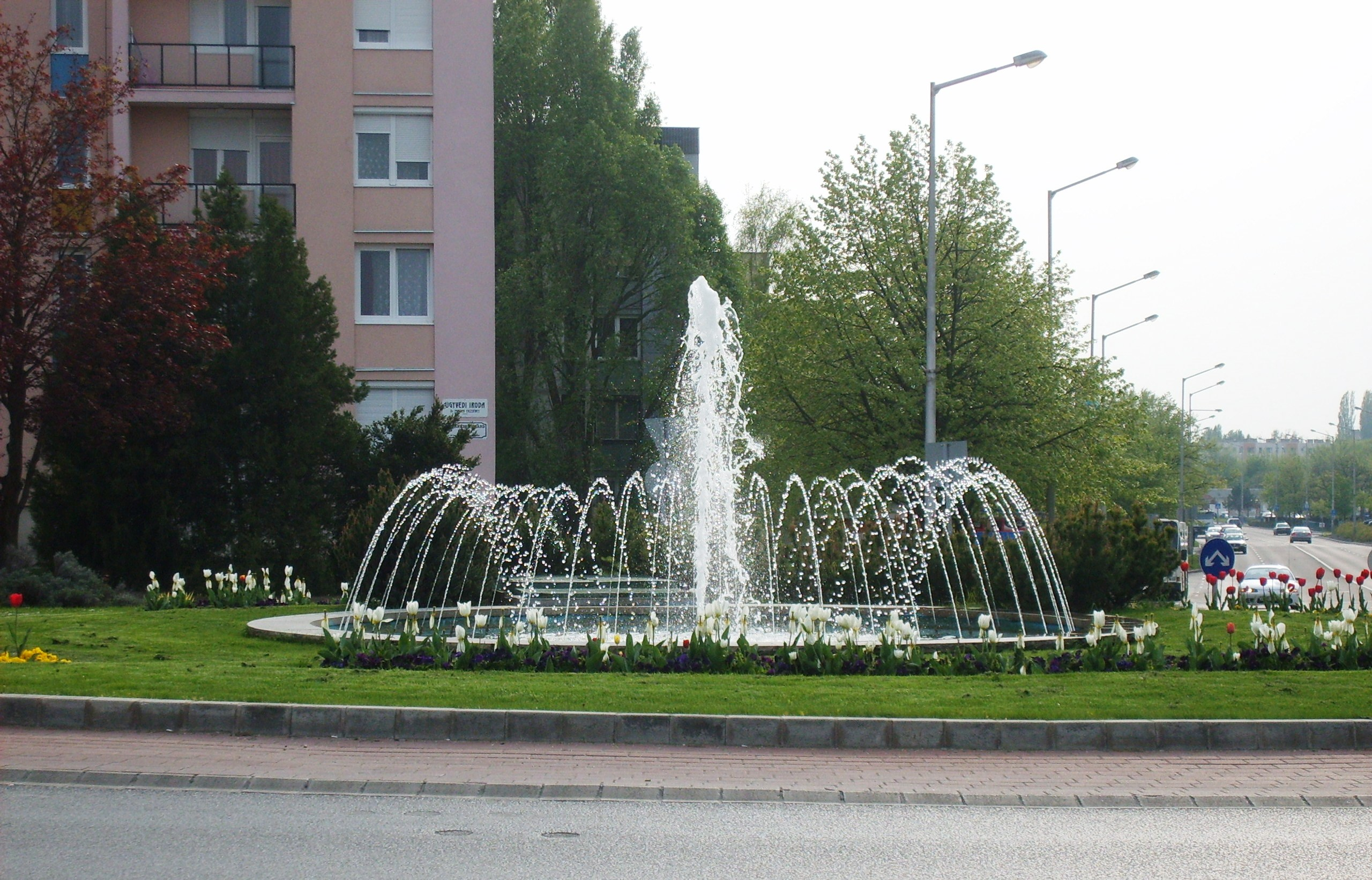 Location: Hungary